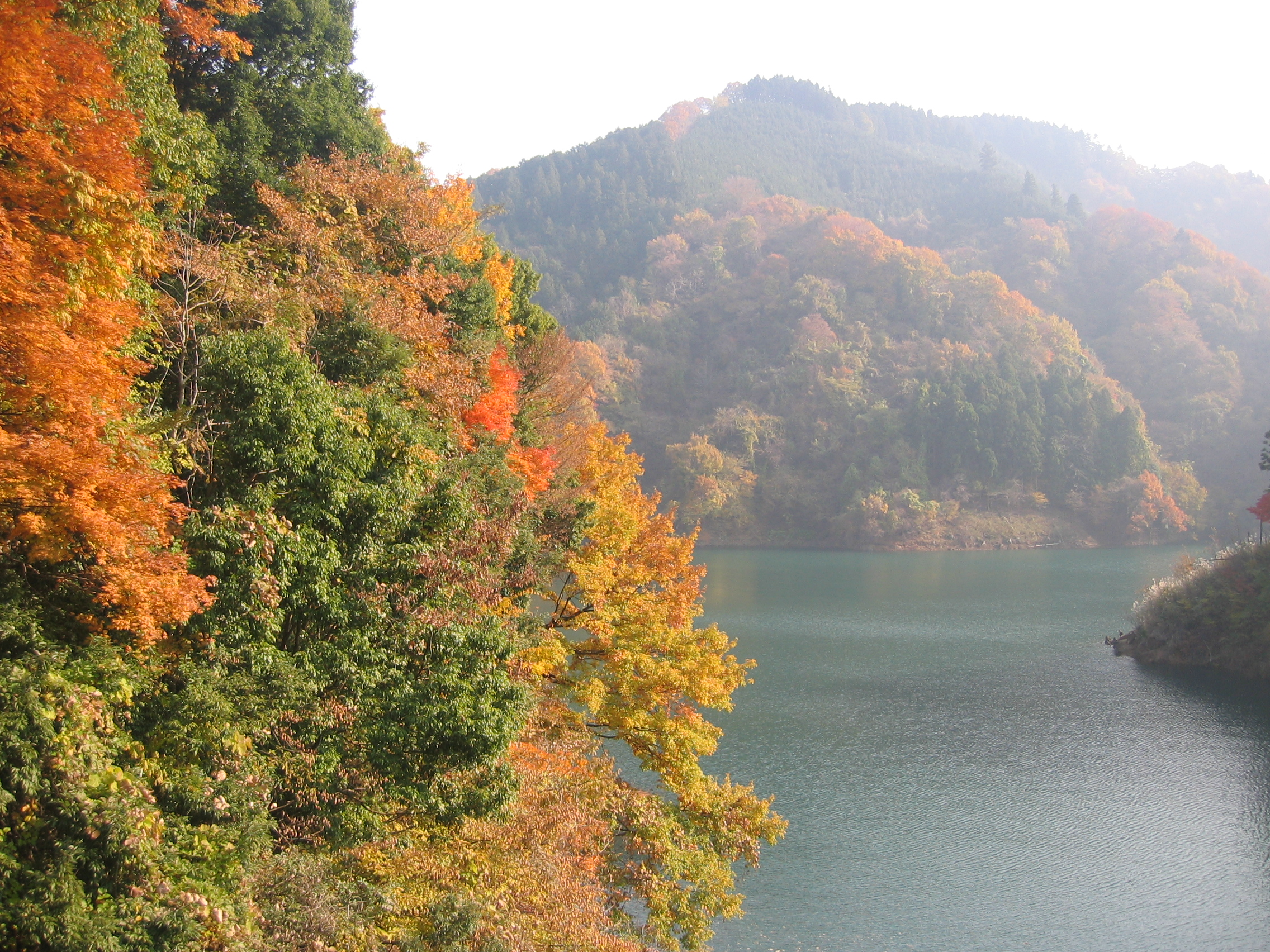 Lake Miyagase as seen from near of Fukaze-tunnel, Kanagawa, Japan.